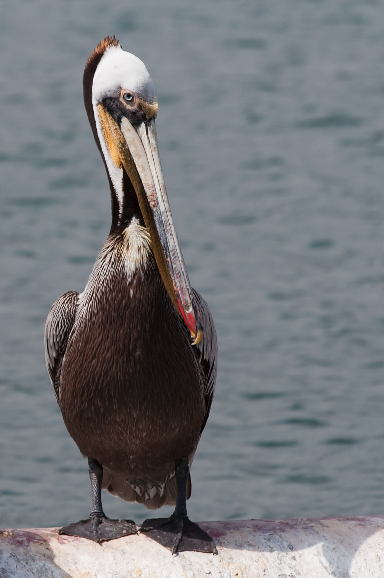 A brown pelican (Pelecanus occidentalis), in Santa Barbara, California